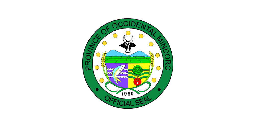 Provincial Flag of Occidental Mindoro